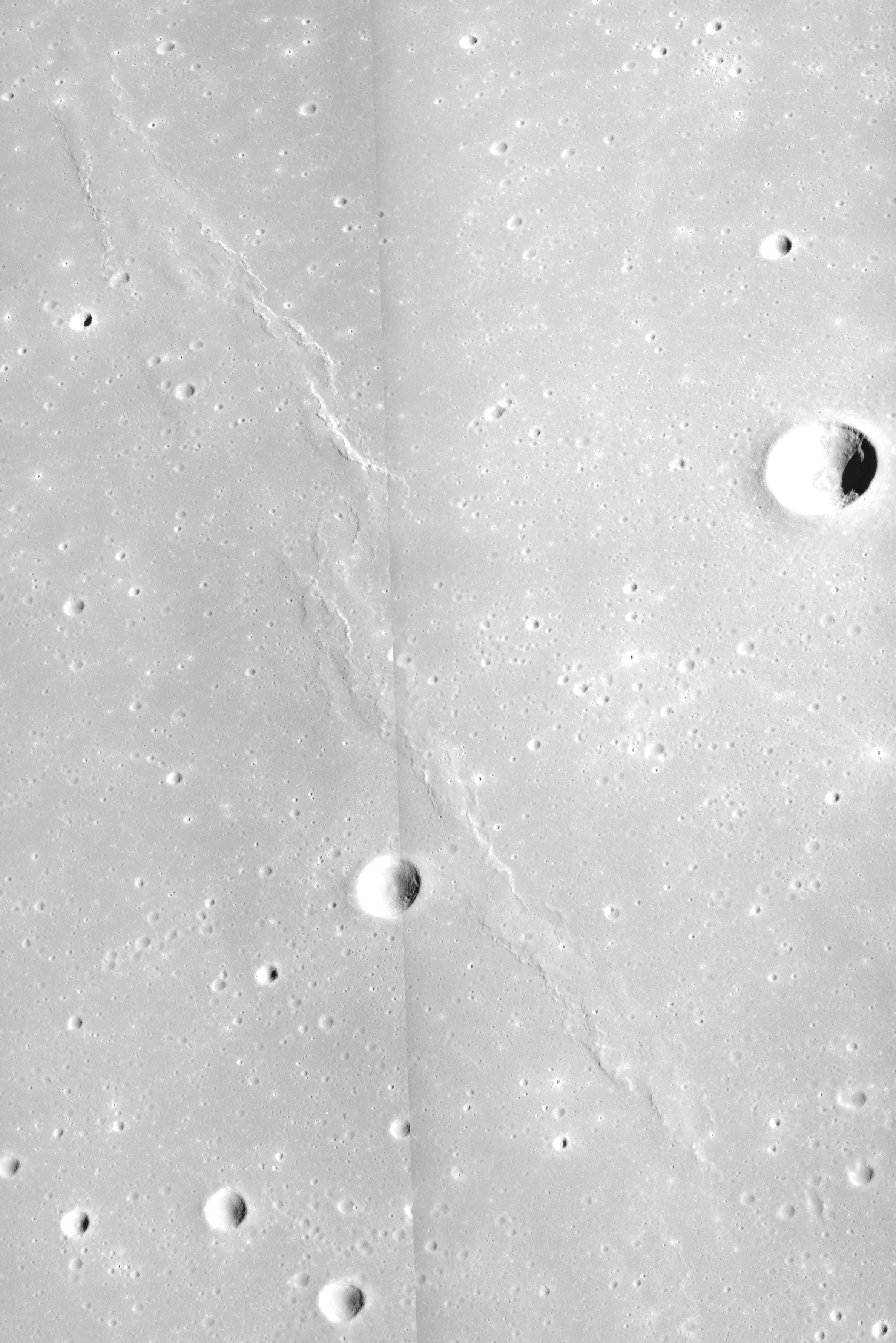 Mosaic of two Apollo 15 panoramic camera frames showing Dorsum Azara, Mare Serenitatis, on the moon. Oblique view facing north. The large crater at right edge is Bessel D.